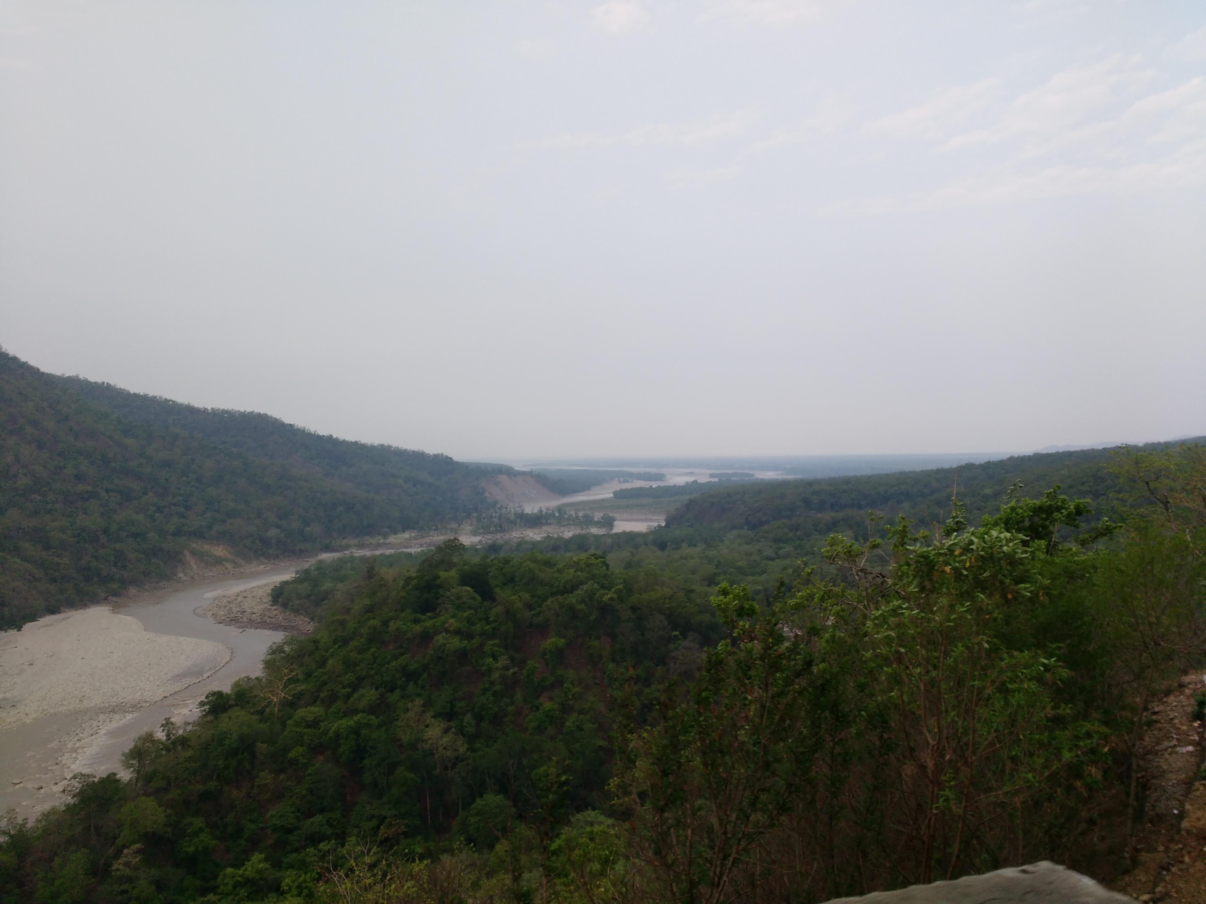 Amazing top view of sharda River from purnagiri temple near tanakpur